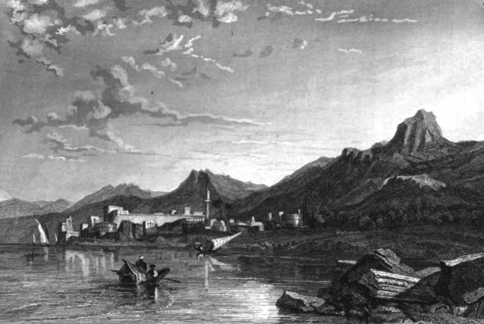 View of Cyprus